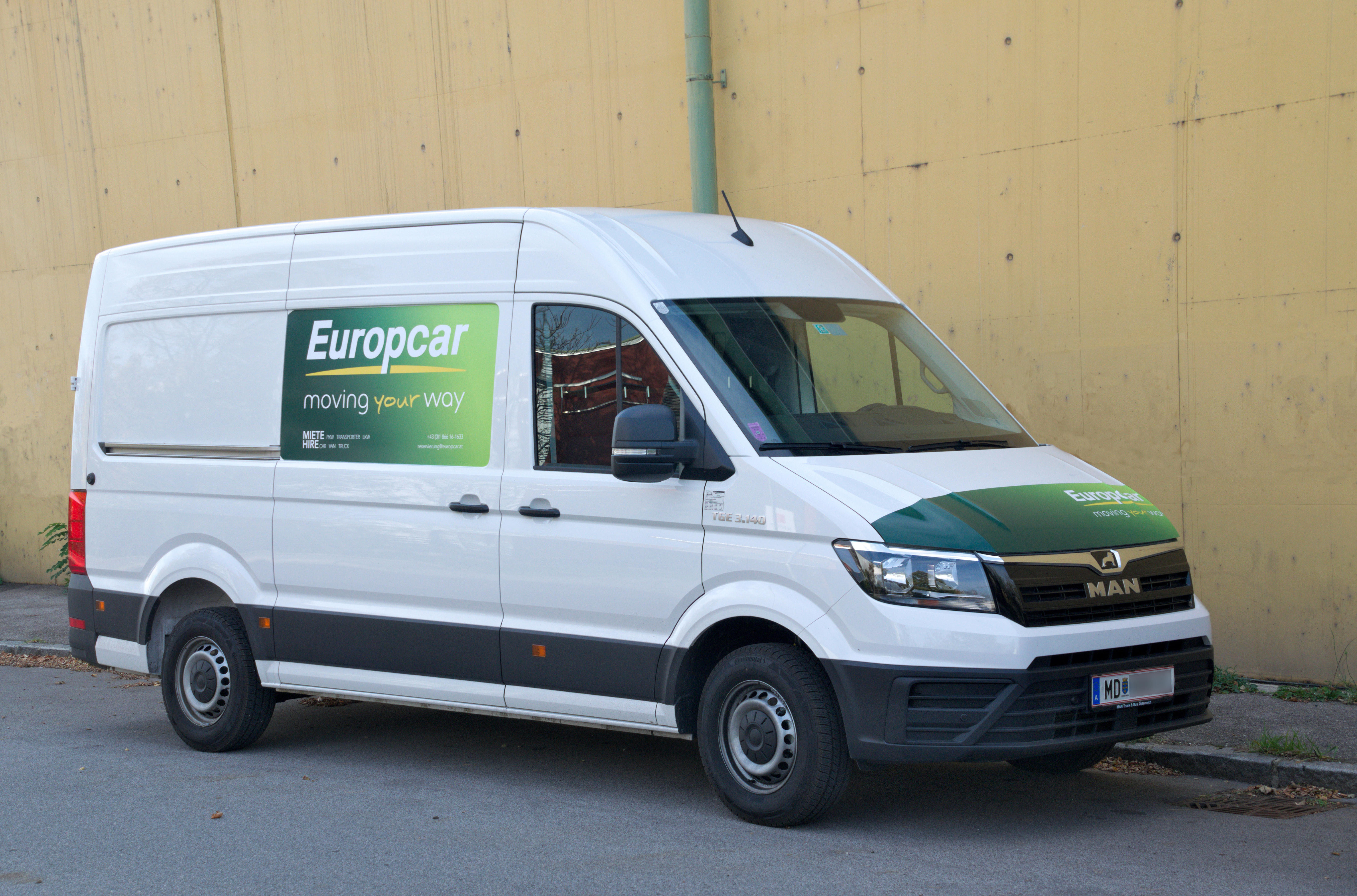 Europcar rental MAN TGE 3.140 (configuration: standard wheel base, standard length, high roof), light tele front three-quarter view/side centred